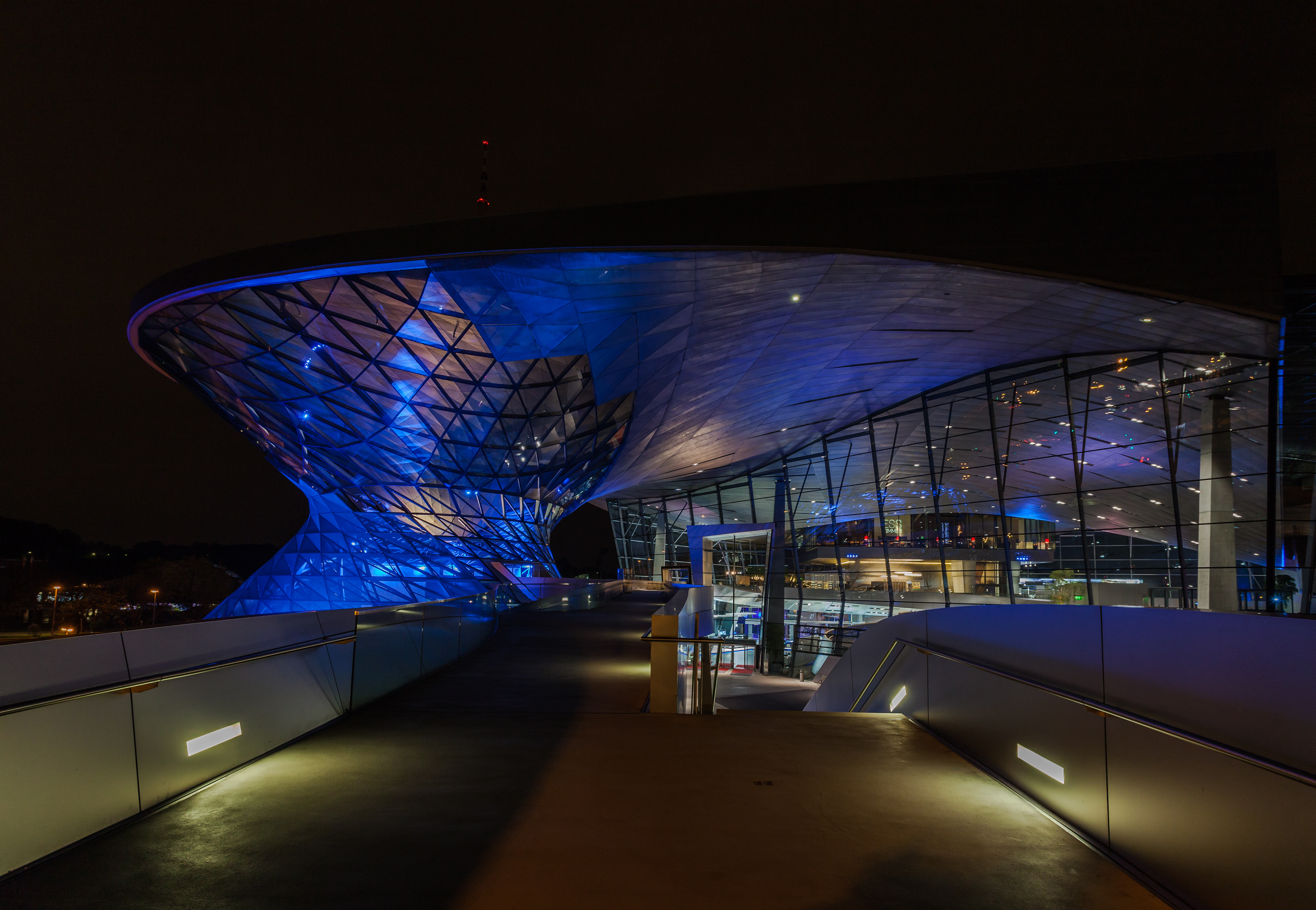 BMW Welt, Munich, Germany